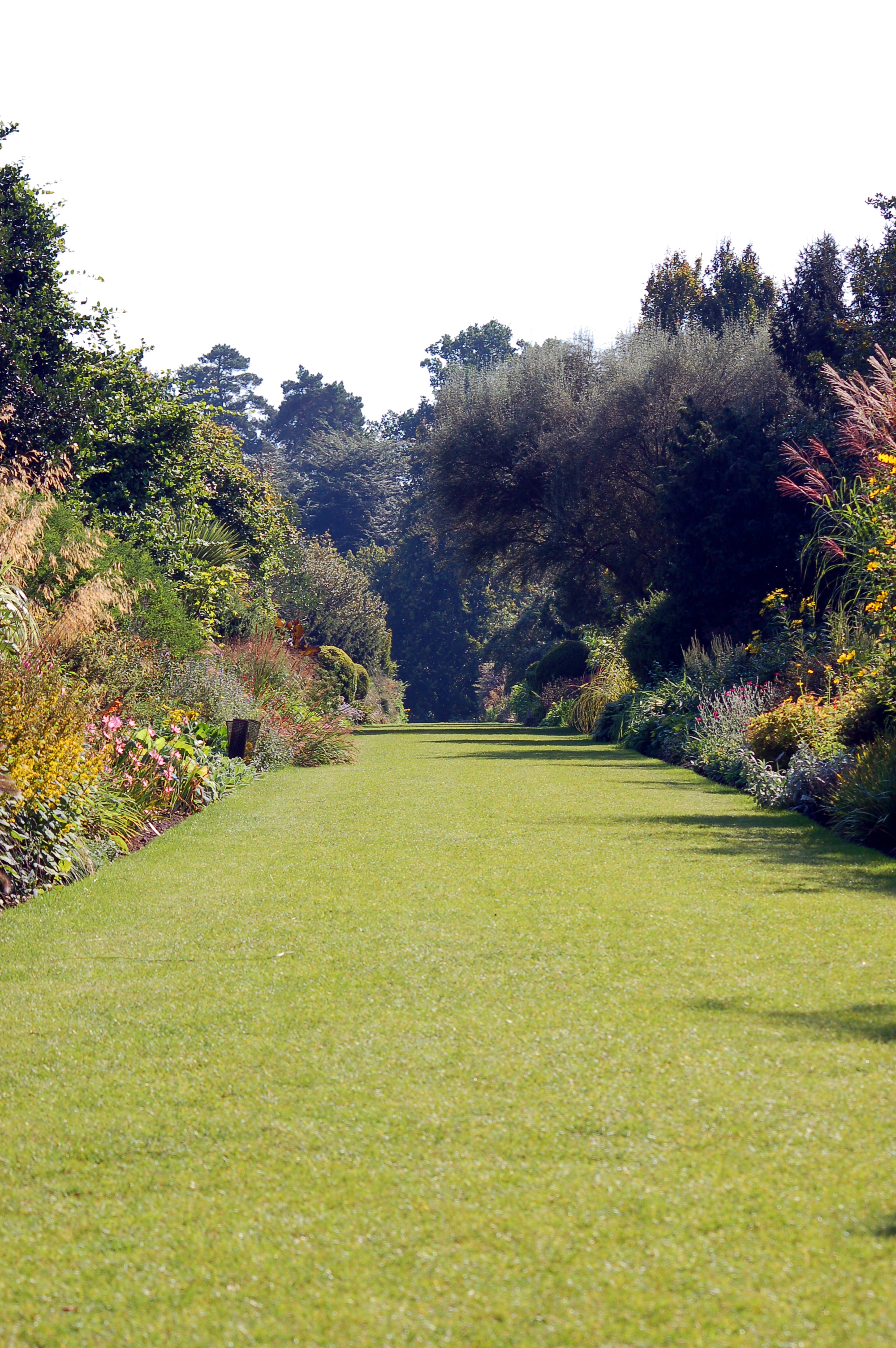 In 1964 Sir Harold Hillier constructed the Centenary Border to celebrate the centenary of the family nursery business.